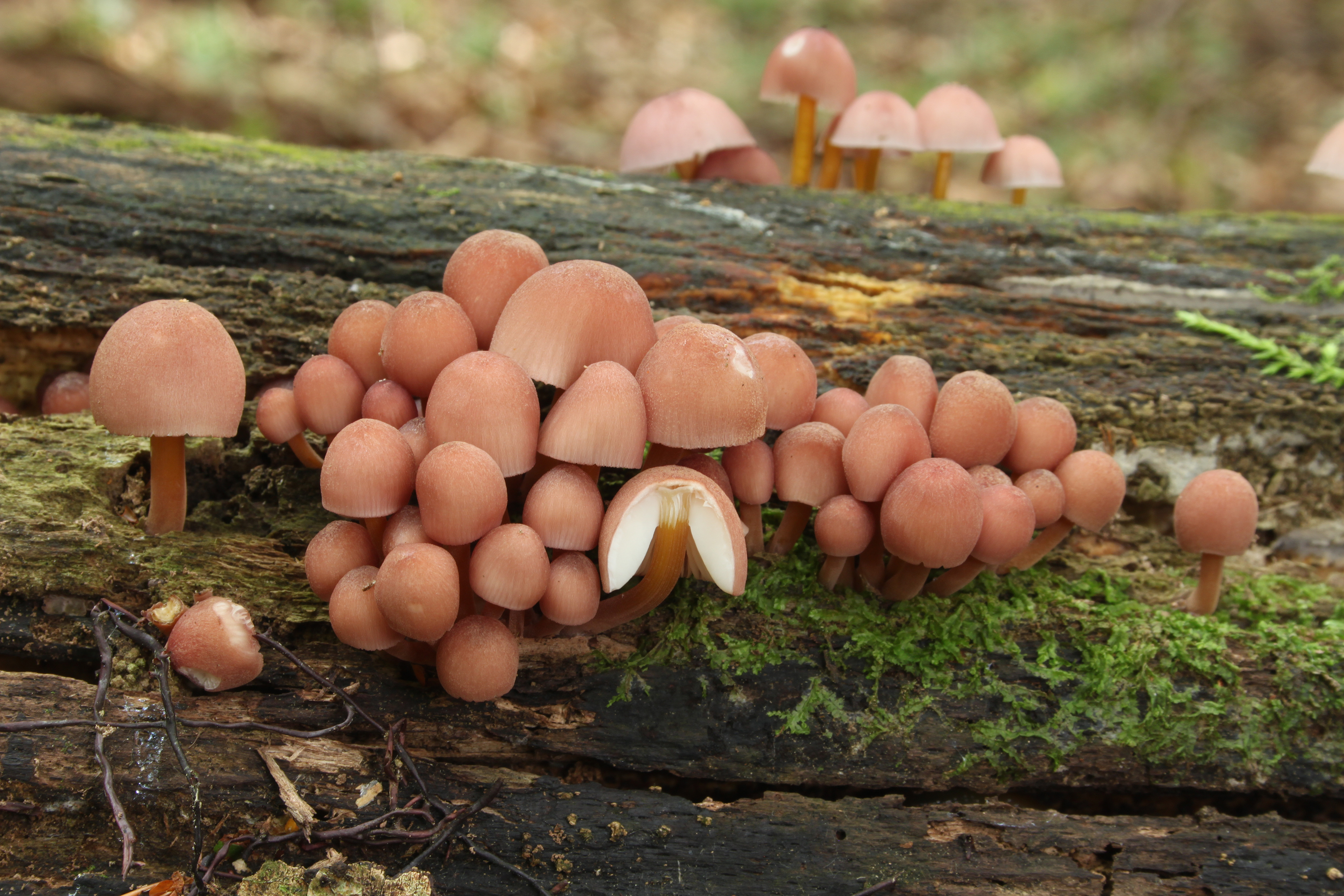 Beautiful Bonnet, Mycena renati, Family: Mycenaceae, Location: Germany, Erbach, Ringingen